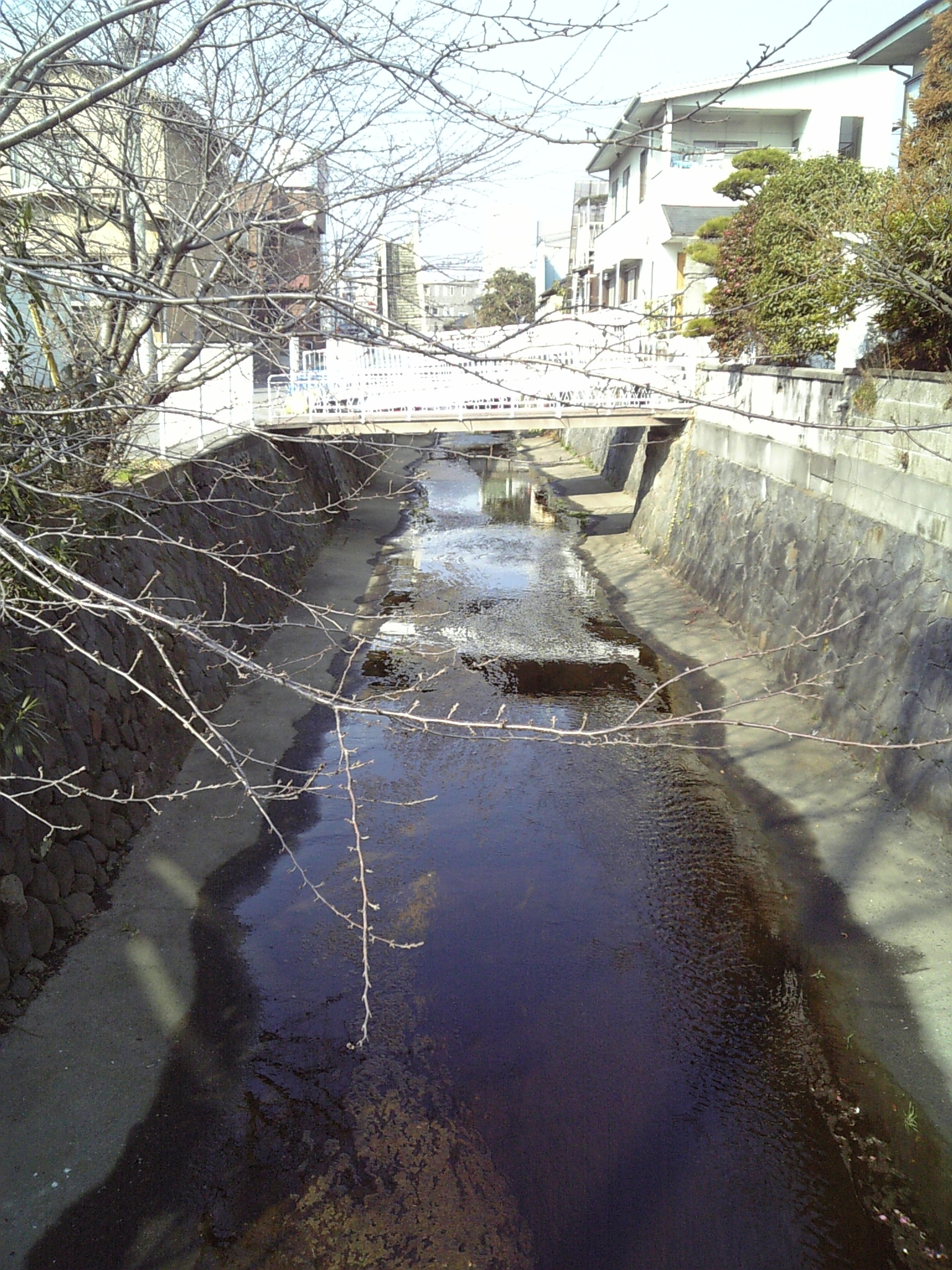 A riverhead area of Nigori river